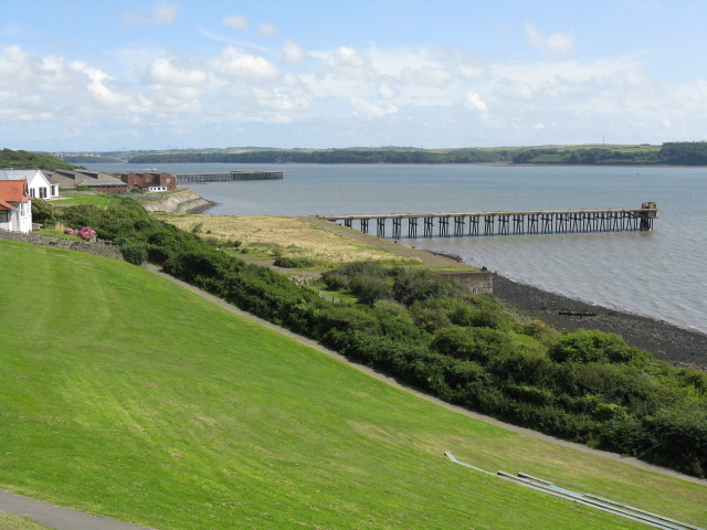 Milford Haven Piers